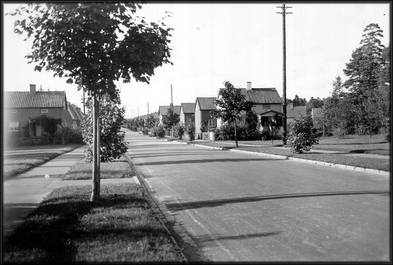 Djupdalsvägen mot nordväst i Olovslund småstugeområde i Bromma, Stockholm. De flesta monteringsfärdiga småhusen som uppfördes i Olovslund år 1927 levererades av AB Träkol i Vansbro (Vansbrohusen). De husen hade valmade tak. De övriga husen med brutet tak levererades av firma Lundqvist & Huddéns Tegel- och Trävaruaktiebolag (Knivstahusen). På Djupdalsvägen står Vansbrohusen till vänster på bilden och Knivstahusen till höger.